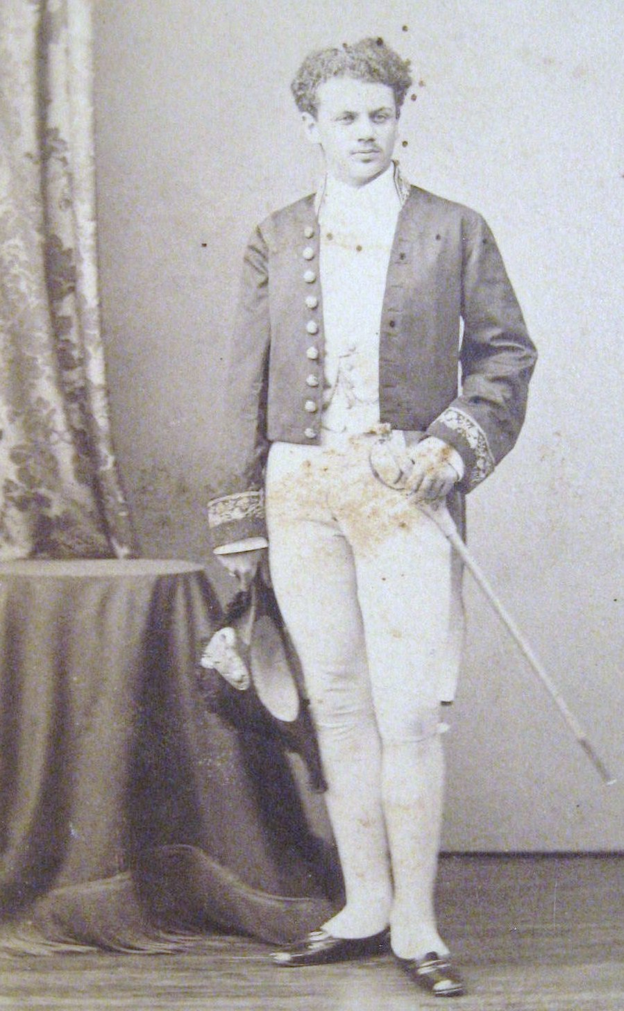 Mexican Minister, Ambassador Plenipotentiary to France in 1900 Sebastian B. de Mier. Taken in France in his youth in court dress, circa 1860. If you know more information about S. De Mier please mailto